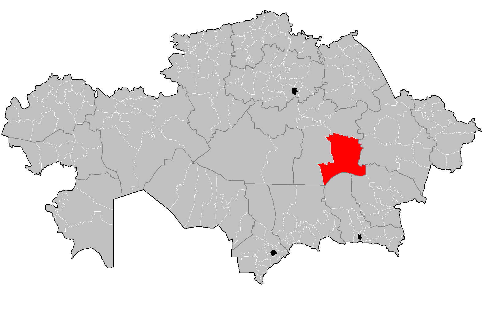 Map of the rayons of Kazakhstan. Created by Rarelibra 16:49, 3 August 2007 (UTC) for public domain use, using MapInfo Professional v8.5 and various mapping resources.